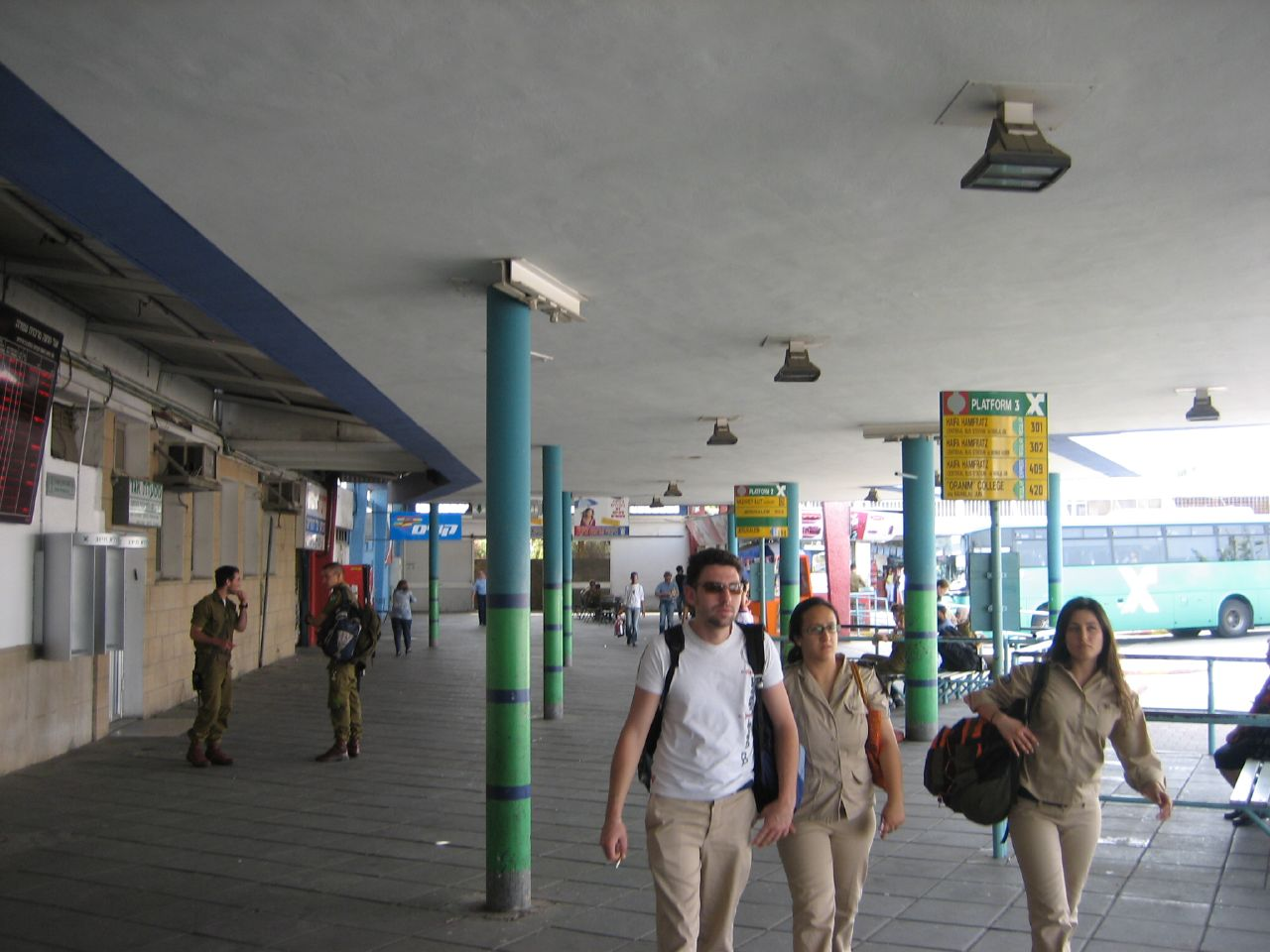 Always lots of soldiers in Israel, but especially at bus stations. They have to adhere to strict dress codes (shirt tucked in, wearing hat) and there are hidden inspectors to bust slovenly soldiers.